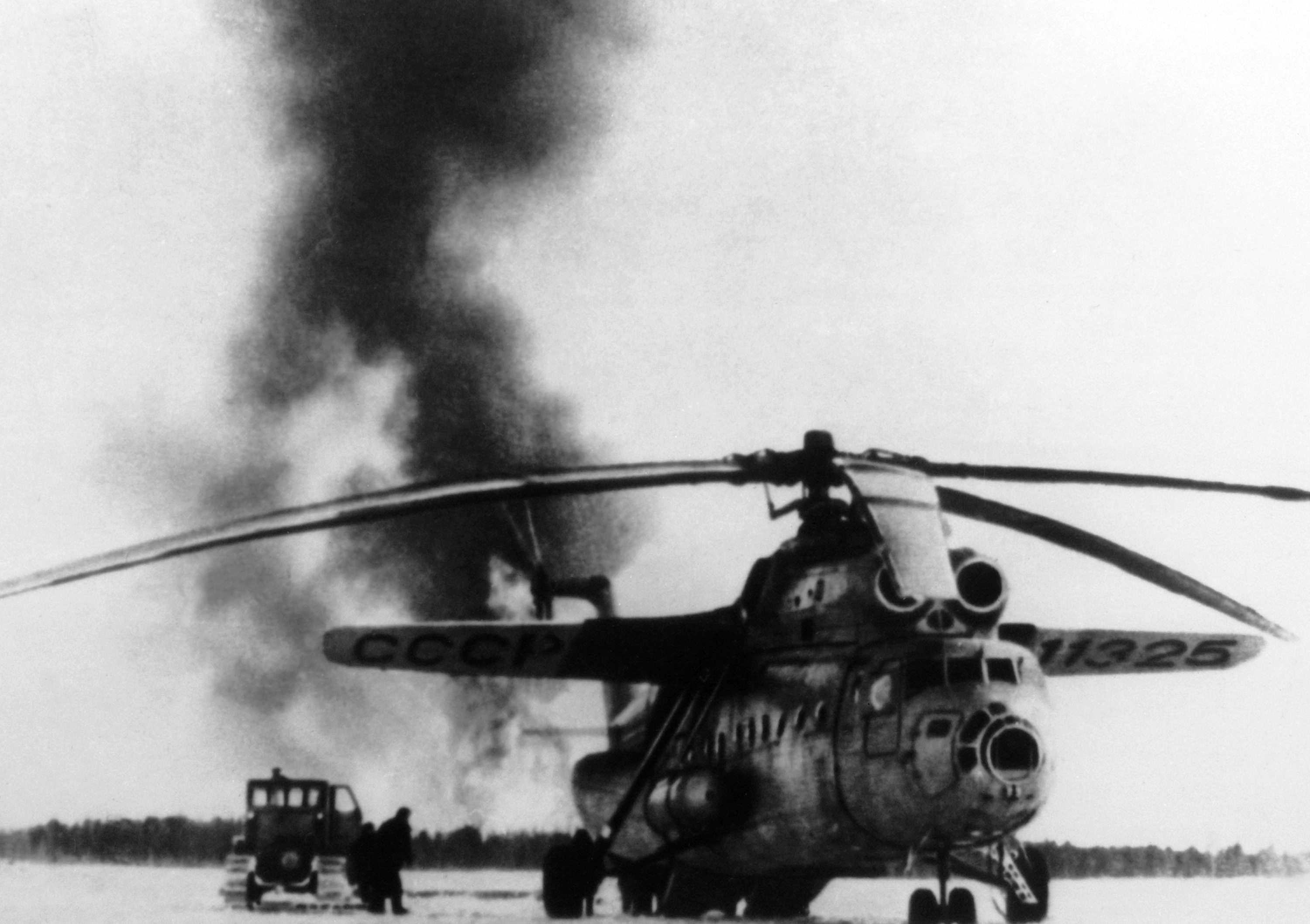 A right front view of a Soviet Mi-6 Hook heavy transport helicopter on the ground.